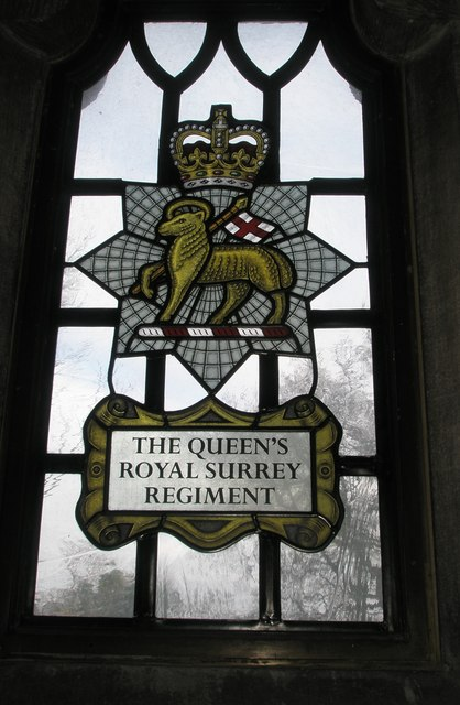 Stained glass window within the chapel for The Queen's Royal Surrey Regiment